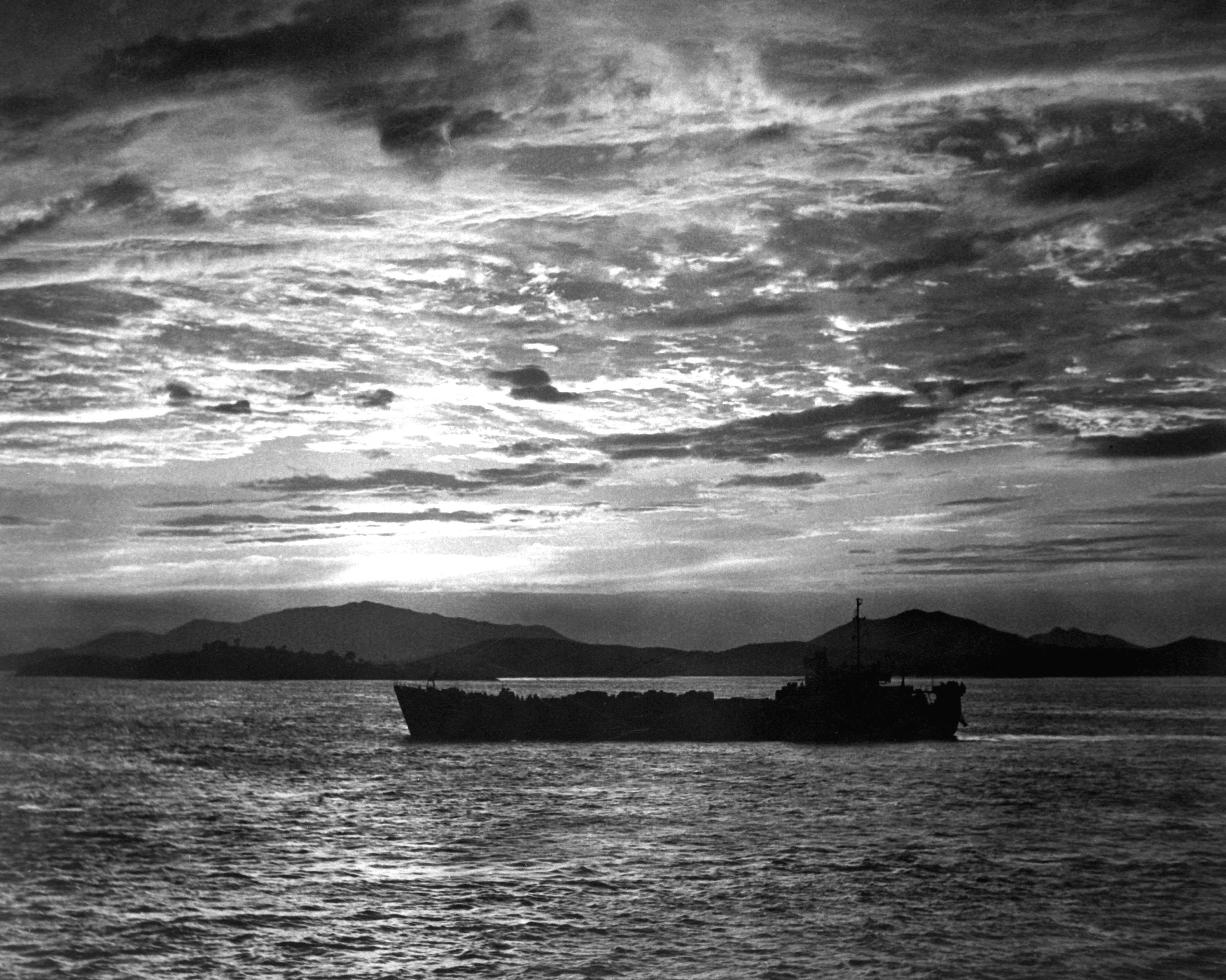 A U.N. LST slips into the harbor at Inchon prior to invasion by U.S. Marines. December 13, 1950. (Navy) NARA FILE #: 080-G-423206 WAR & CONFLICT BOOK #: 1415